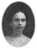 The face of a white woman in an oval frame. Her dark hair is parted center and dressed back away from her face and shoulders.